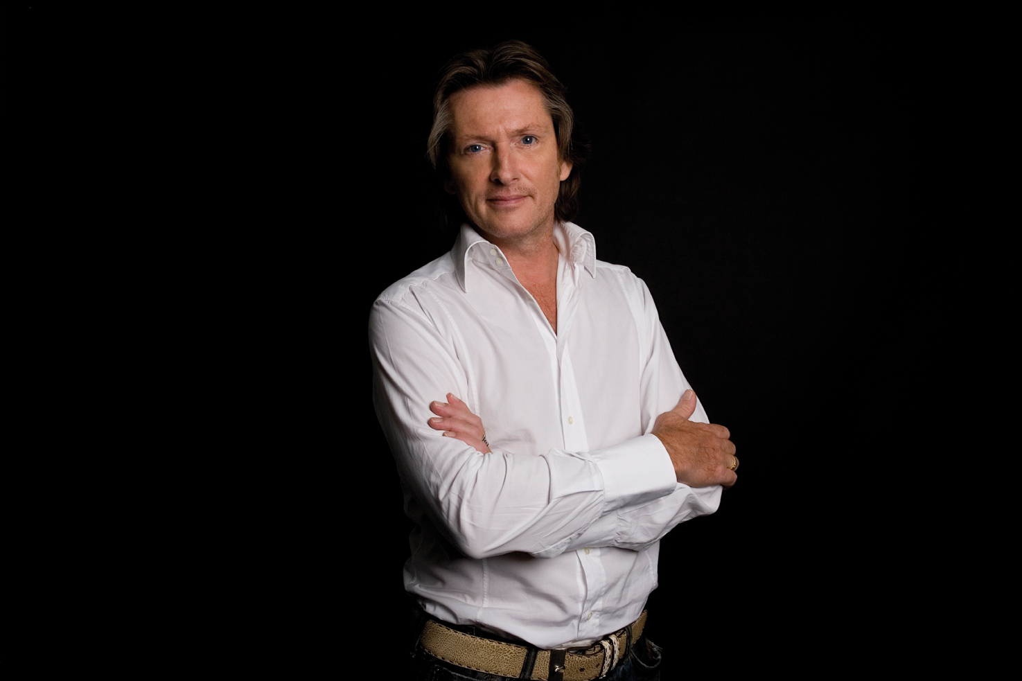 Erik de Zwart, Dutch tv and radio host and producer